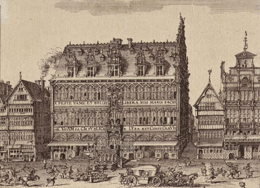 Detail from a map of Brussels by Martin de Tailly (Bruxella nobilissima Brabantiae civitas, 1640)